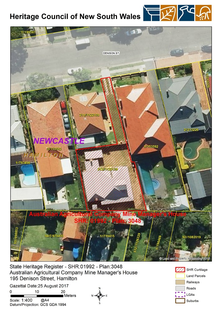 Australian Agricultural Company Mine Manager's House: SHR 1992 - Curtilage Map 3048